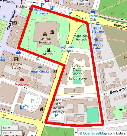 Map of heritage site "Ansamblul urban II", Timișoara, Romania